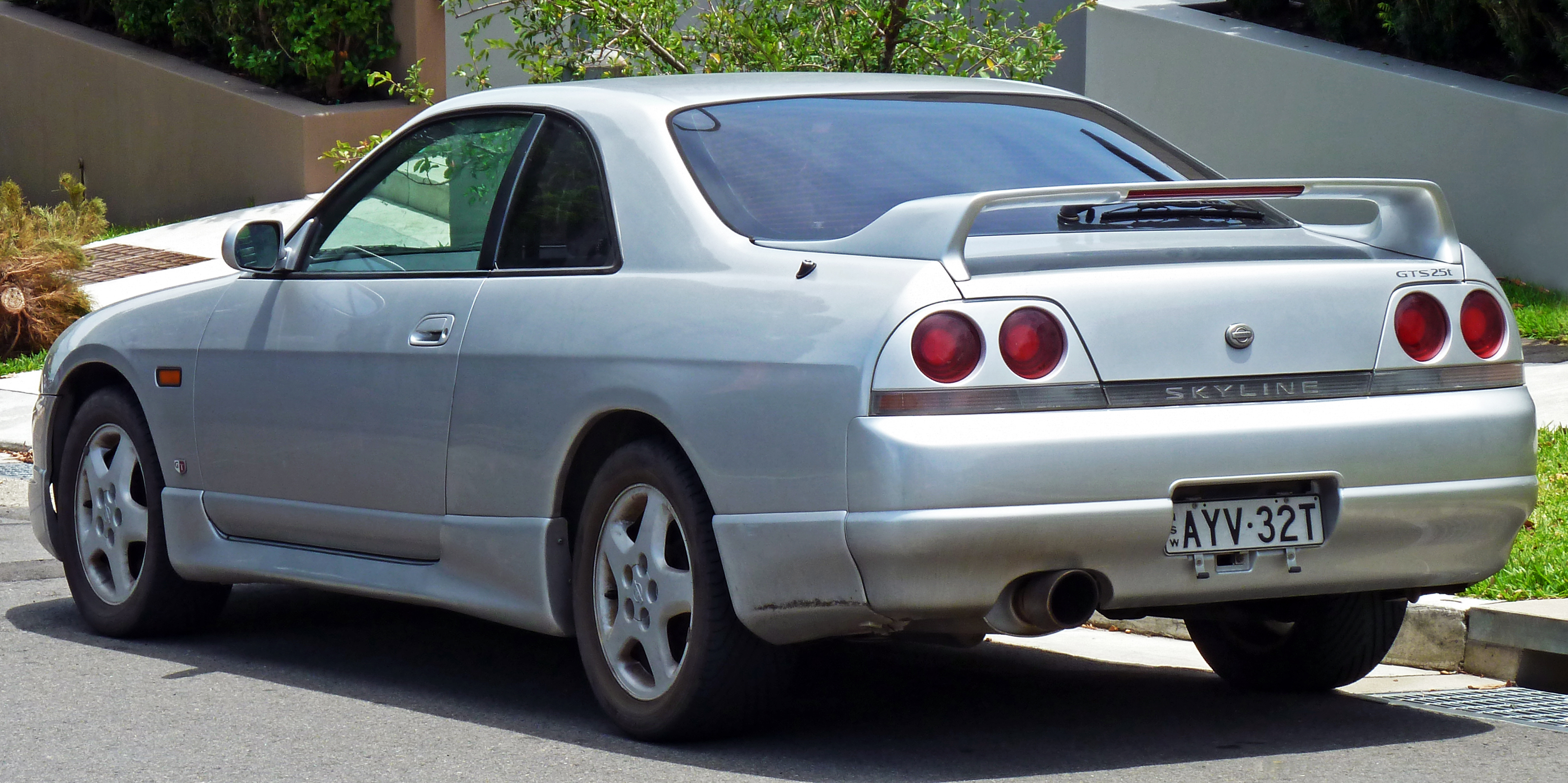 1995 Nissan Skyline (R33) GTS25t coupe. Photographed in Rose Bay, New South Wales, Australia.